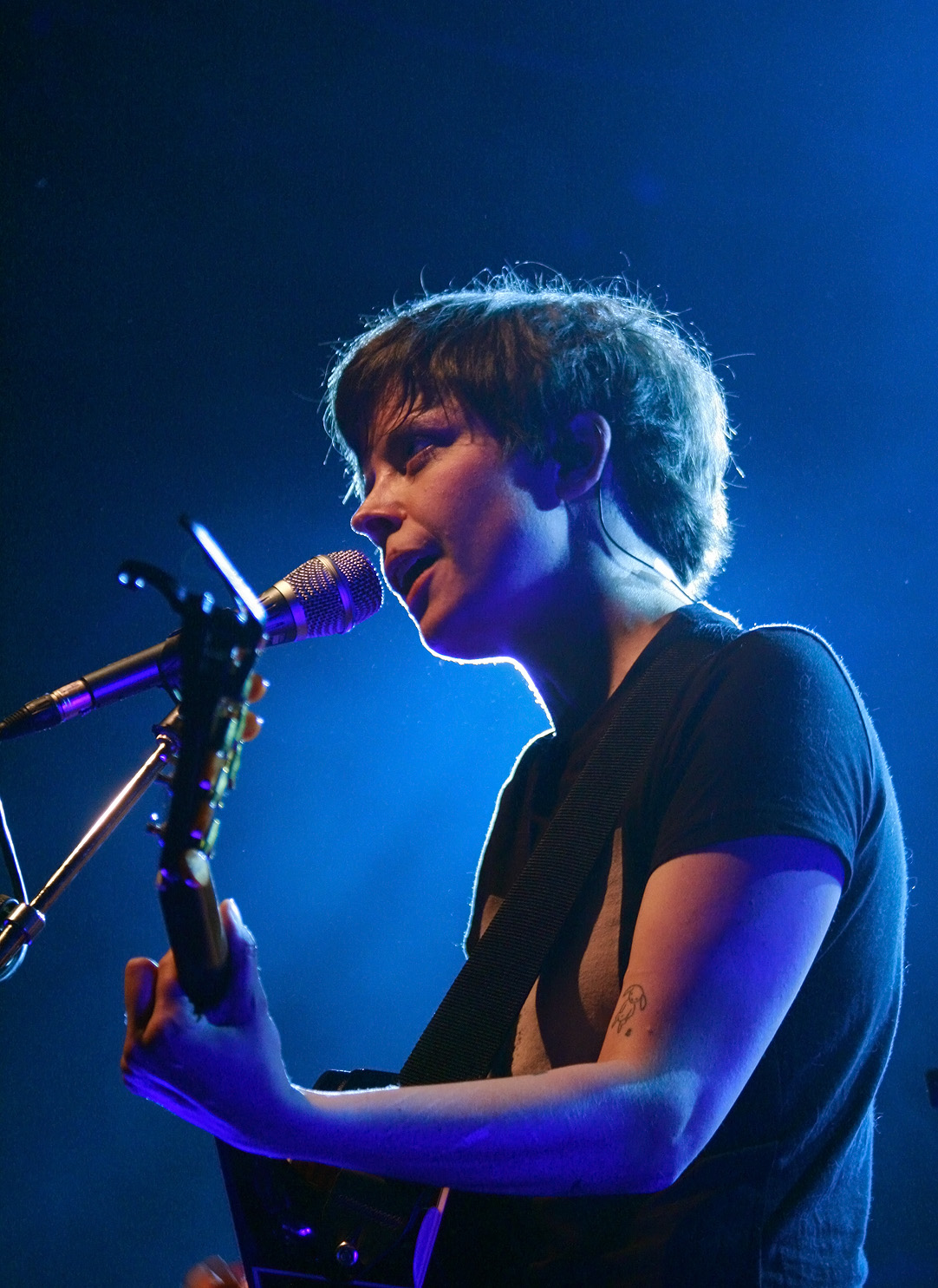 Clara Luzia - concert at the cultural center WUK in Vienna.